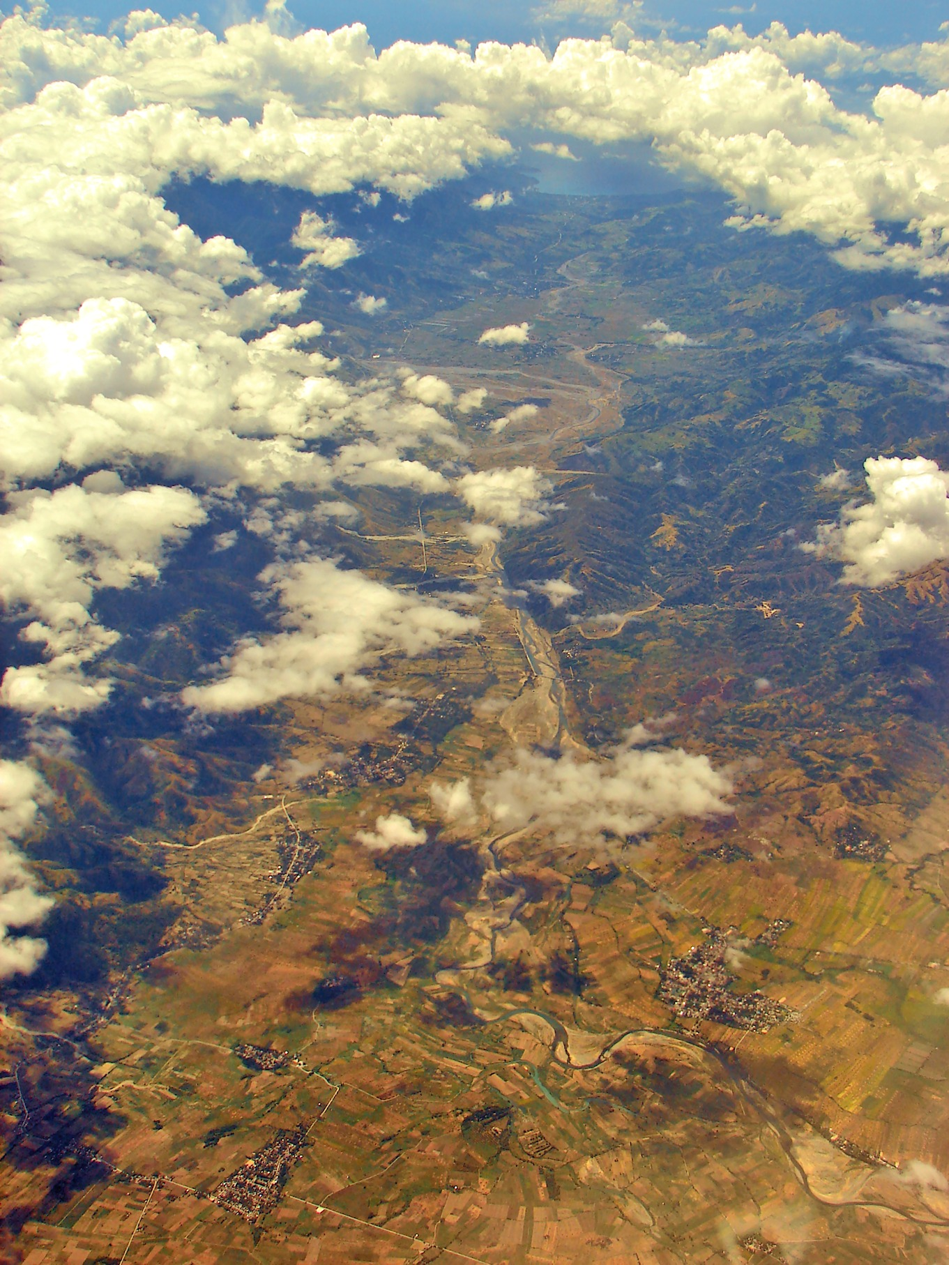 Aerial view of Laur, Nueva Ecija, Philippines, with Dingalan Bay in the distant background.